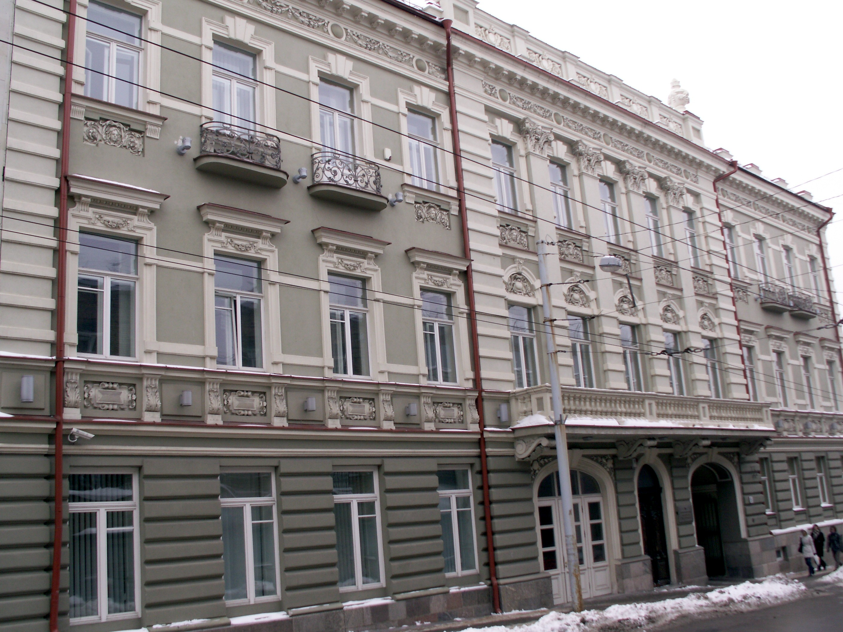 Jono Basanavičiaus Street 5 in Vilnius